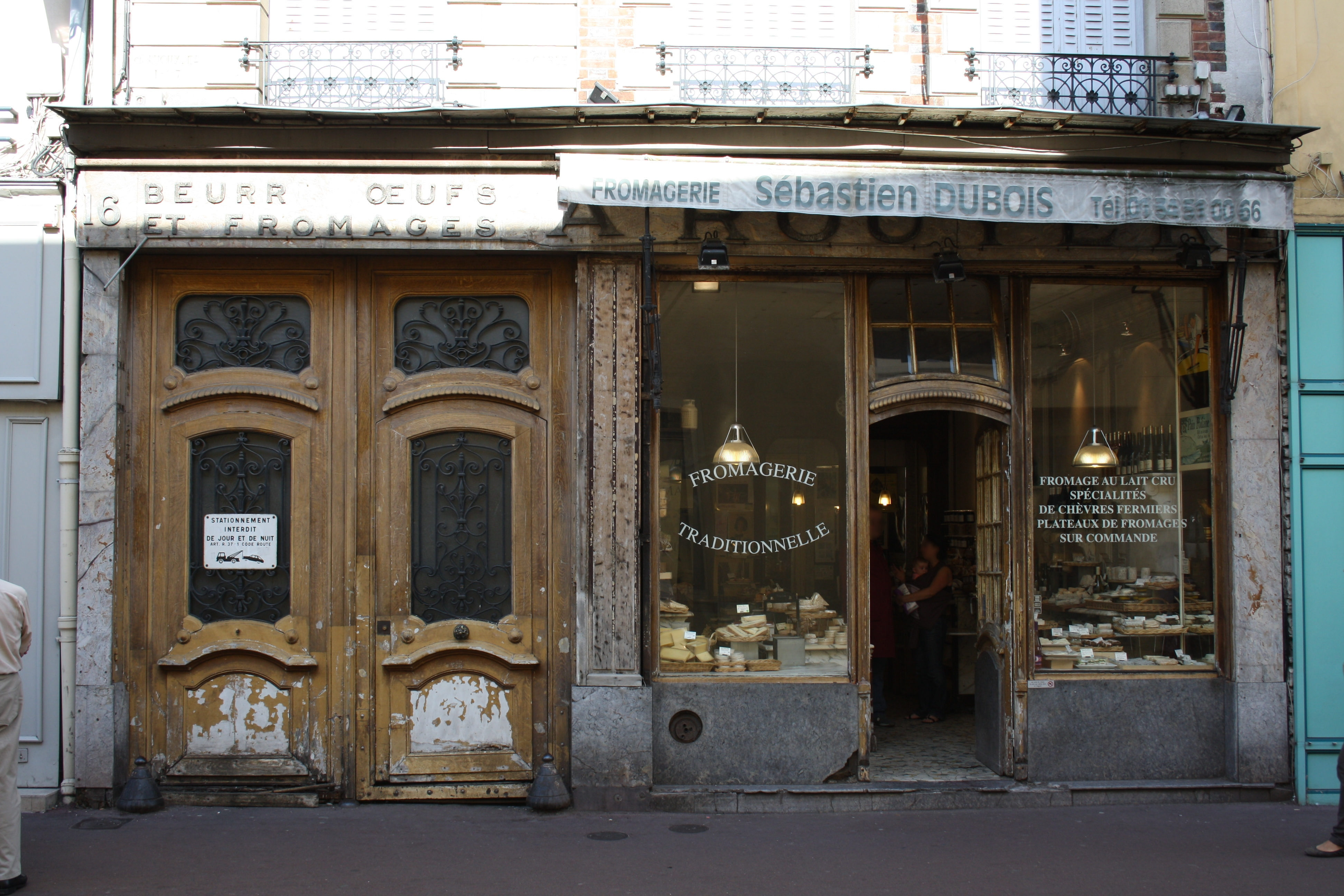 16 Poissy street in Saint-Germain-en-Laye, France.